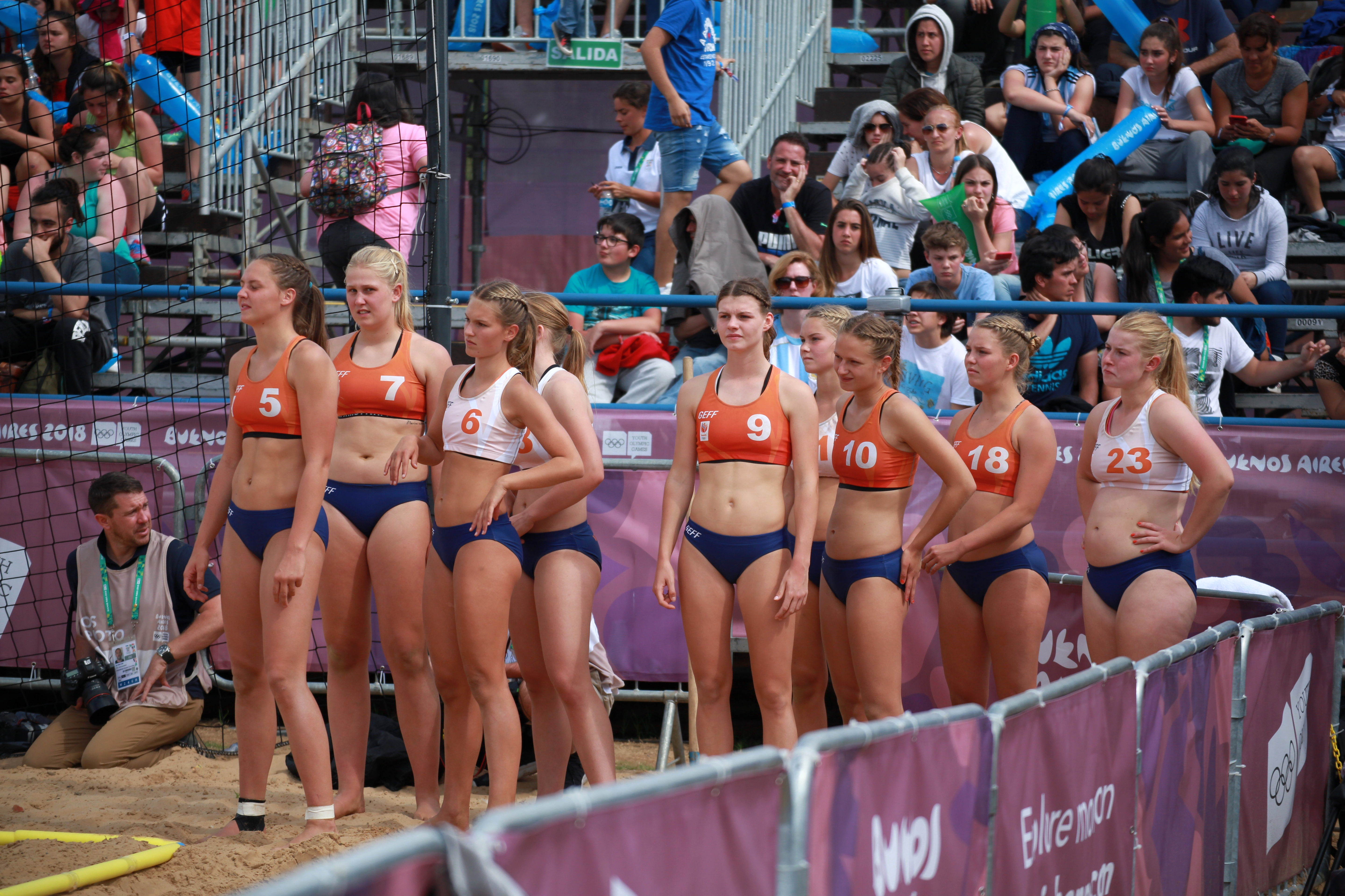 Beach handball at the 2018 Summer Youth Olympics in Buenos Aires at 13 October 2018 – Girls Bronze Medal Match – Hungary-Netherlands 2:0